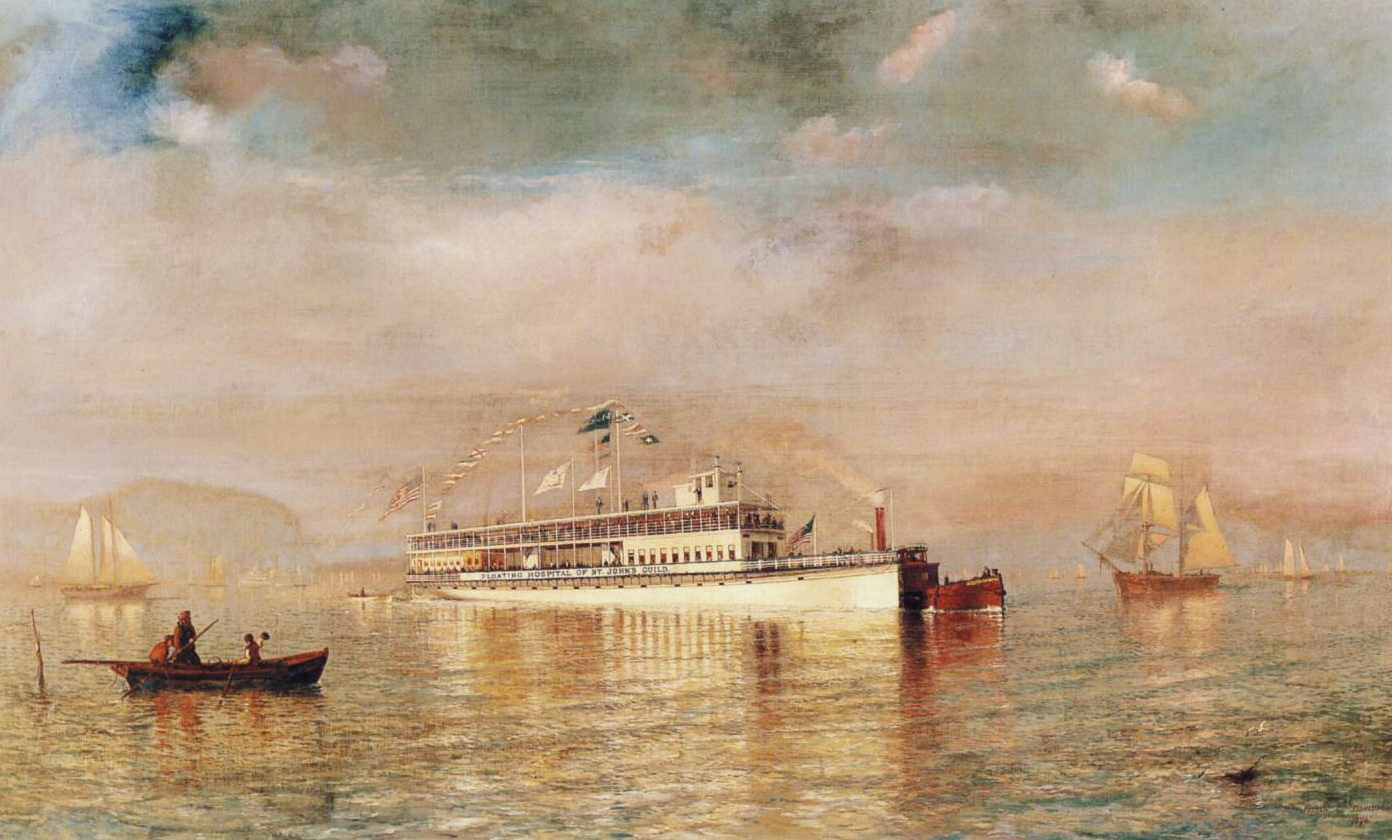 1876 painting by Julian Davidson of the "Emma Abbott", the first vessel owned by the Floating Hospital.